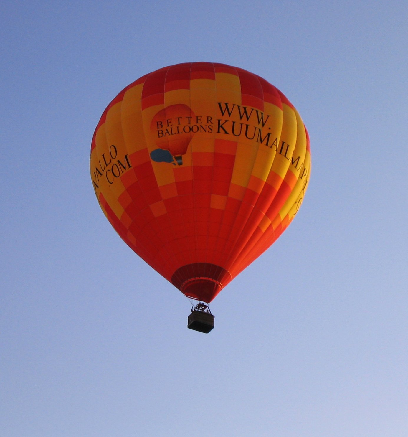 Balloon over Helsinki, Finland